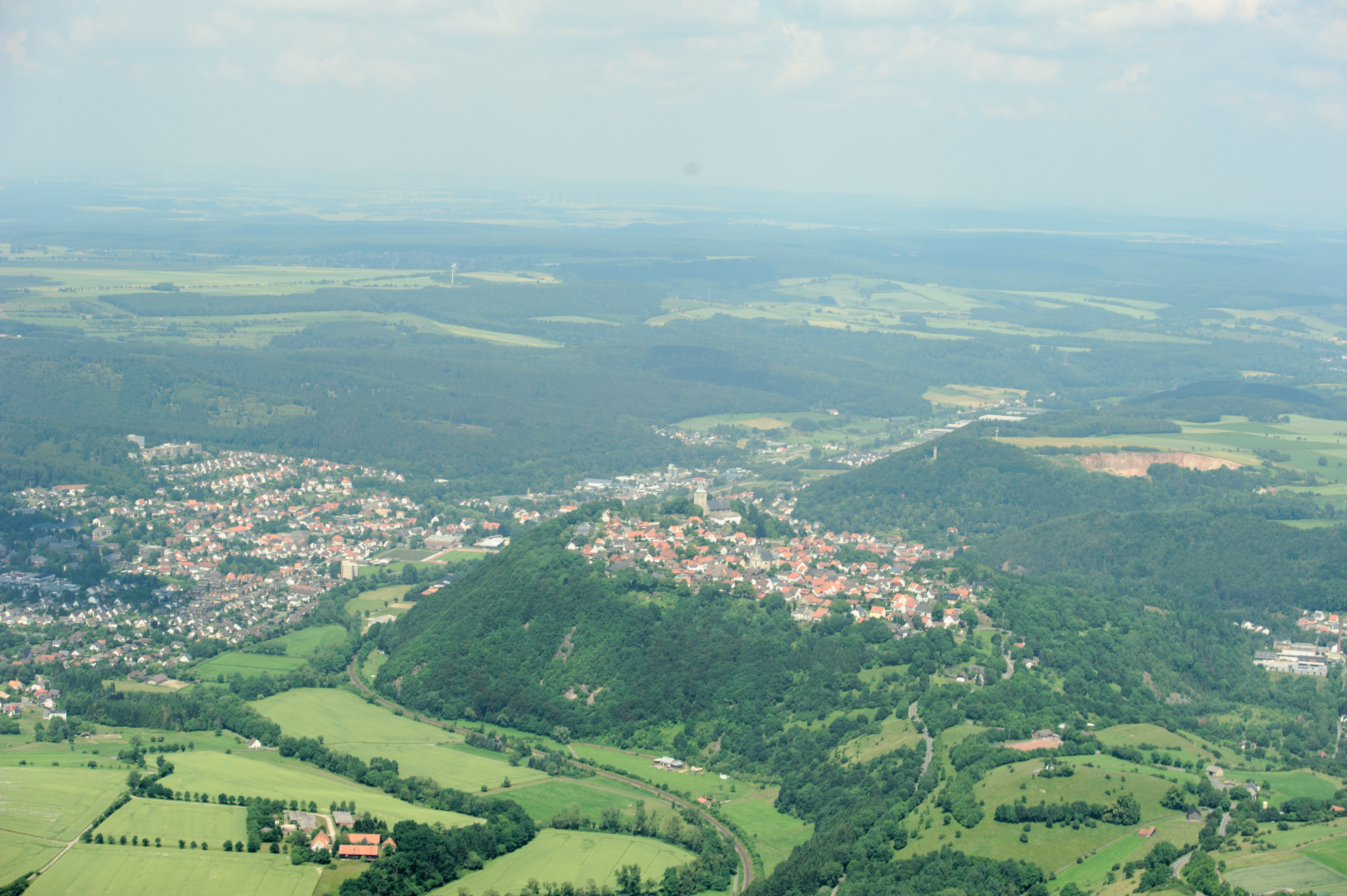 Fotoflug Sauerland-Ost, Niedermarsberg (links), Obermarsberg (Mitte) The making of this document was supported by the Community-Budget of Wikimedia Germany.